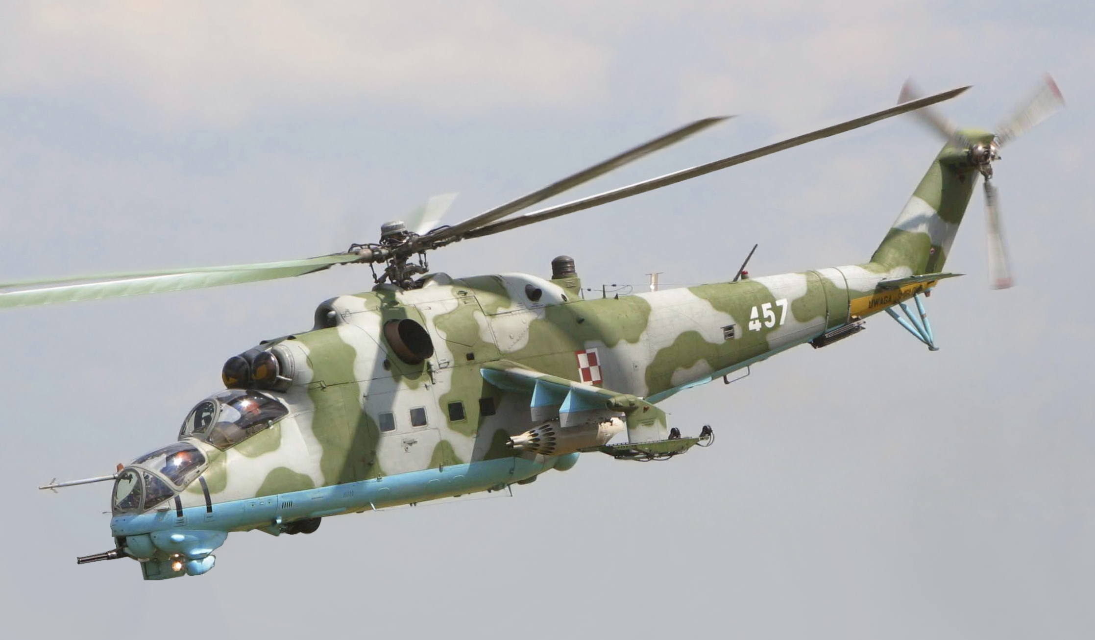 Polish Mi-24